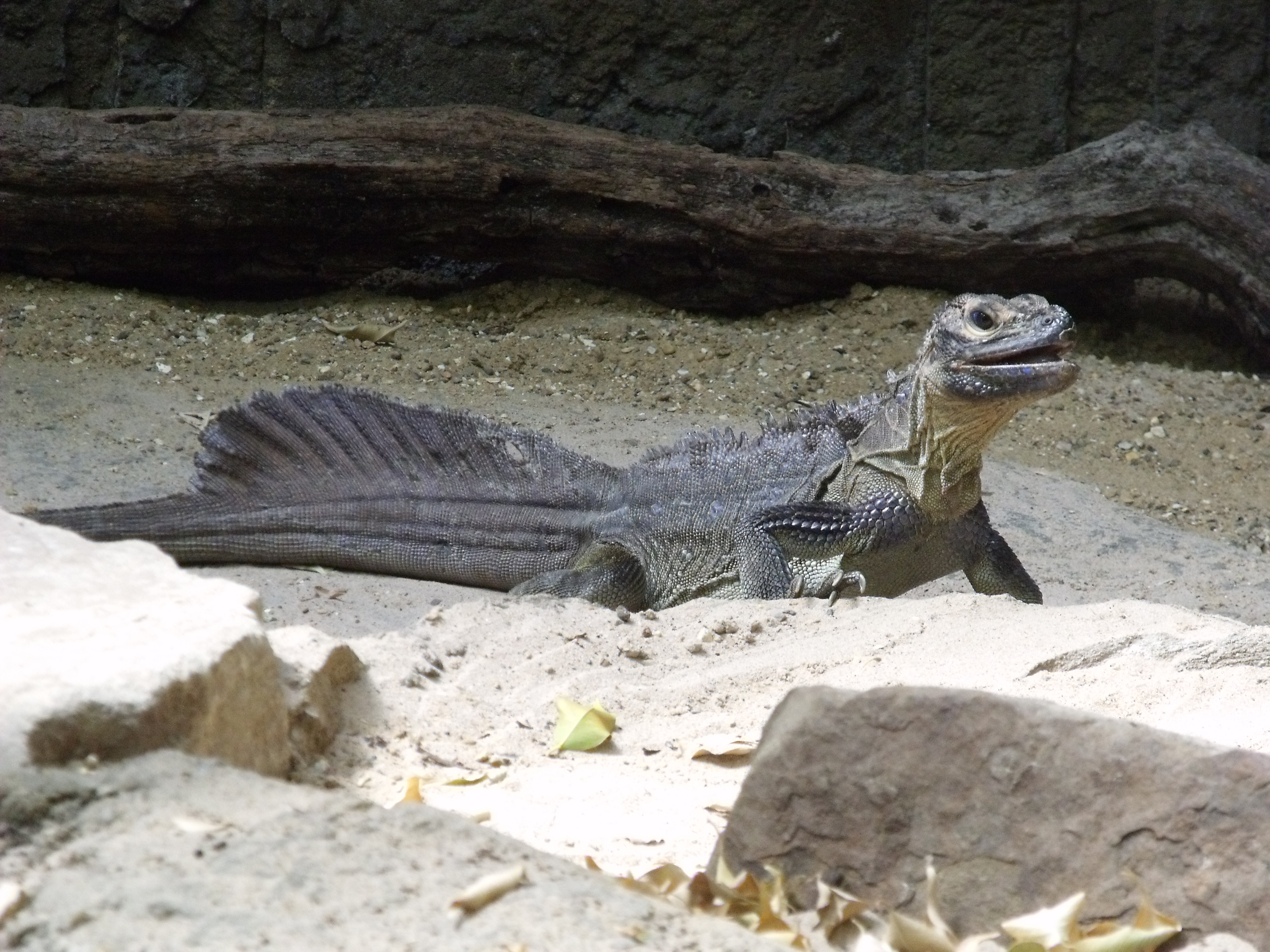 A Sailfin lizard at London Zoo, England.